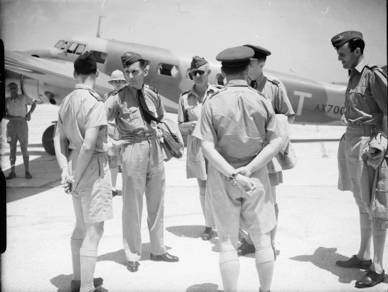 Royal Air Force Operations in the Middle East and North Africa, 1939-1943. The new Air Officer Commanding-in-Chief, Middle East Command, Air Marshal A W Tedder (second from left in foreground group), arrives at Lydda, Palestine, to discuss operations in Iraq and Syria with his senior officers. On Tedder's left, wearing sunglasses, is Air Commodore (although still wearing Group Captain's badges of rank) L O Brown, recently appointed Air Officer Commanding, Palestine and Trans-Jordan. At far right stands Squadron Leader G Bray, Tedder's Personal Assistant Staff Officer. Tedder's aircraft, behind the group, is an ex-Yugoslavian Lockheed 10A, impressed as AX700 and serving with No. 267 Squadron RAF.